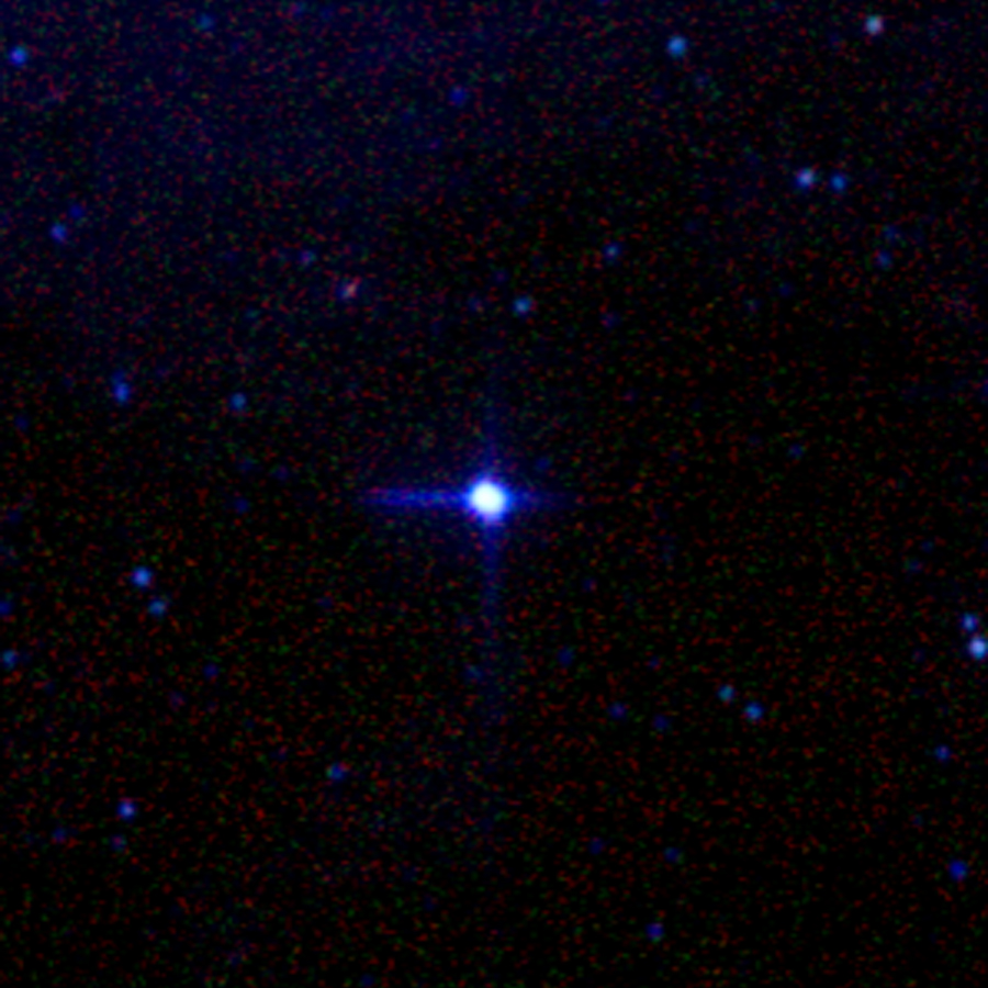 The nearby star system Alpha Centauri. Photo taken by Midcourse Space Expermient spacecraft.